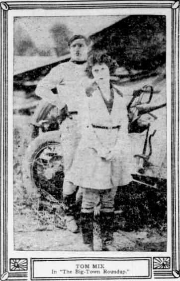 Newspaper advertisement for the American film The Big Town Round-Up (1921) with Tom Mix and Ora Carew, on page 6 of the August 27, 1921 Duluth Herald.